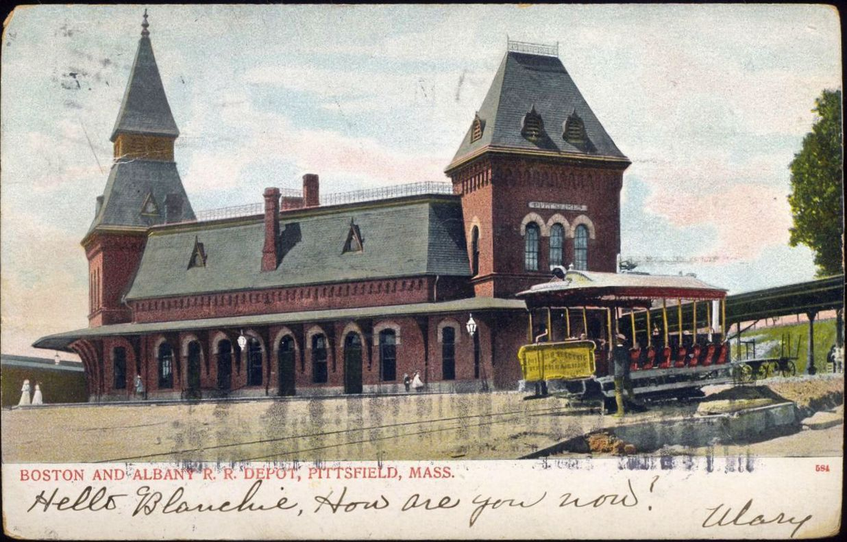 1906 postcard of Pittsfield station with a Pittsfield Electric trolley in front